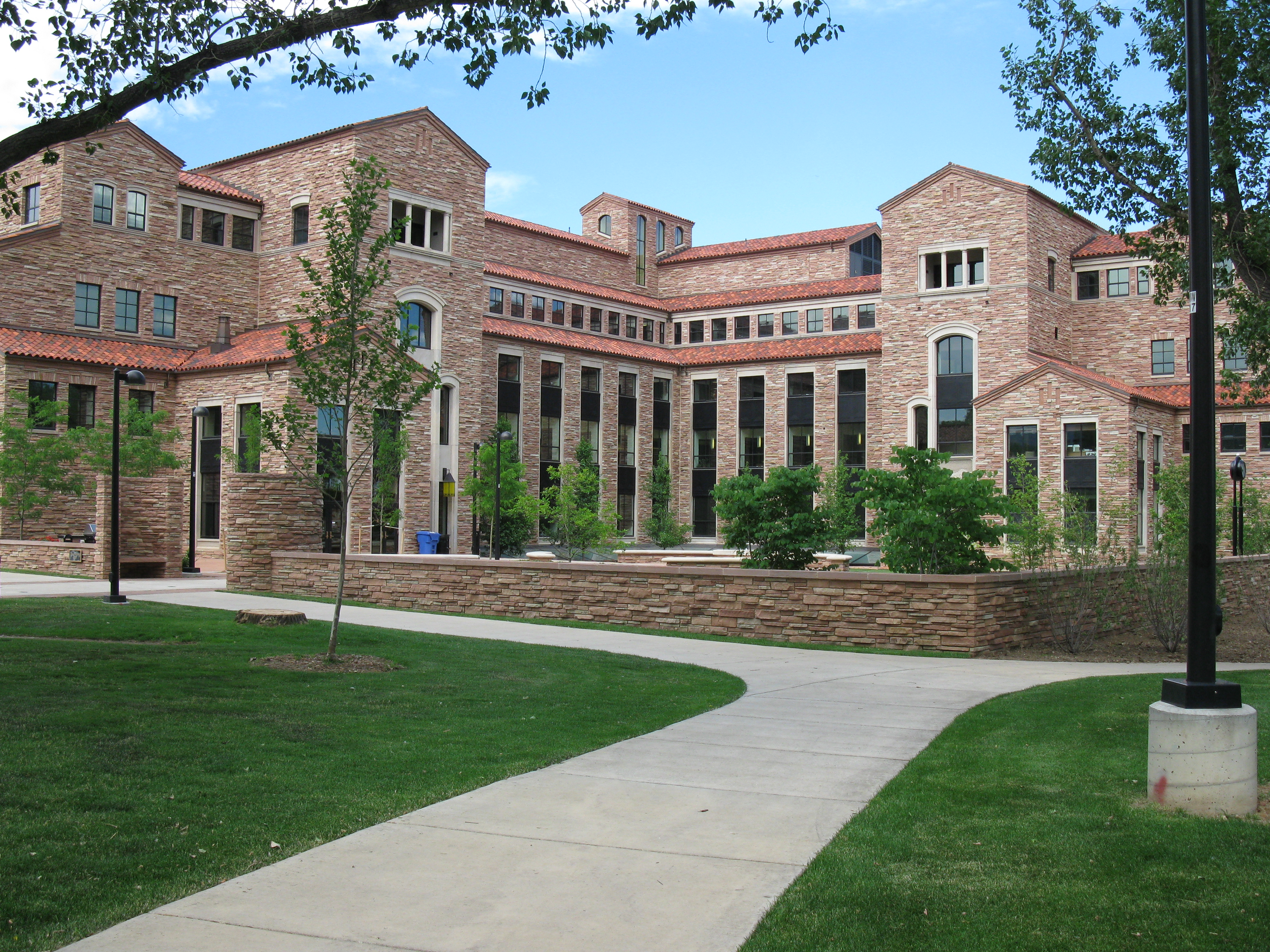 This is a photograph of the Wolf Law building at University of Colorado at Boulder, taken from the southwest.